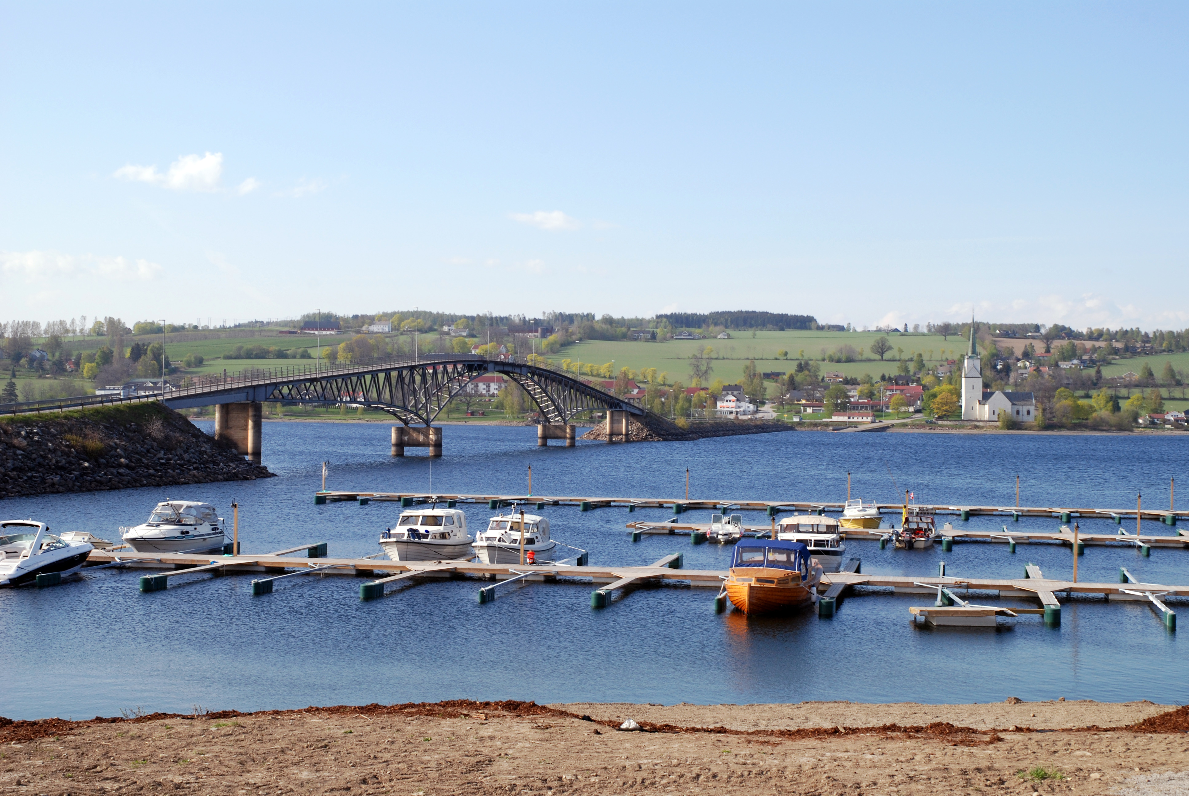 Bridge over Nessundet. Tingnes and Nes church in the background., in Ringsaker, Hedmark, Norway.